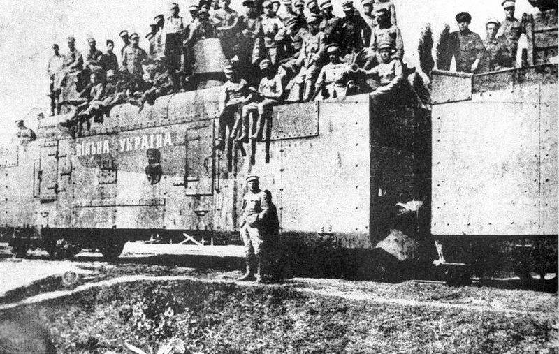 Armoured train "Vilna Ukraina" (Free Ukraine), operated by the Sich Riflemen of the Ukrainian Galician Army, 1919.